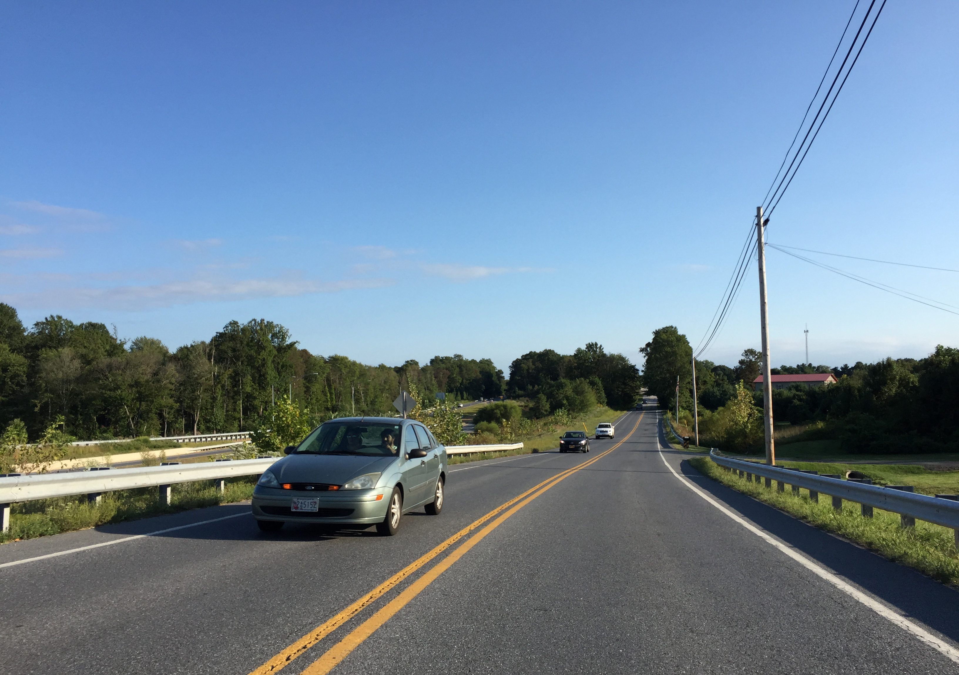 View south along Maryland State Route 932 (Ten Oaks Road) just south of Ivory Road in Glenelg, Howard County, Maryland